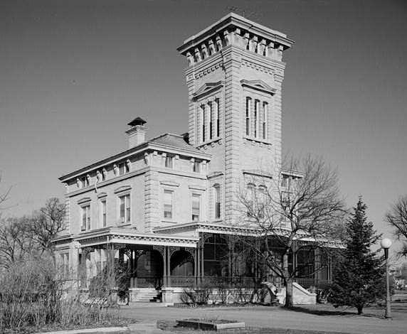 Rock Island Arsenal, Building No. 1, Gillespie Avenue between Terrace Drive & Hedge Lane, Rock Island,( Rock Island County, Illinois) (cropped)